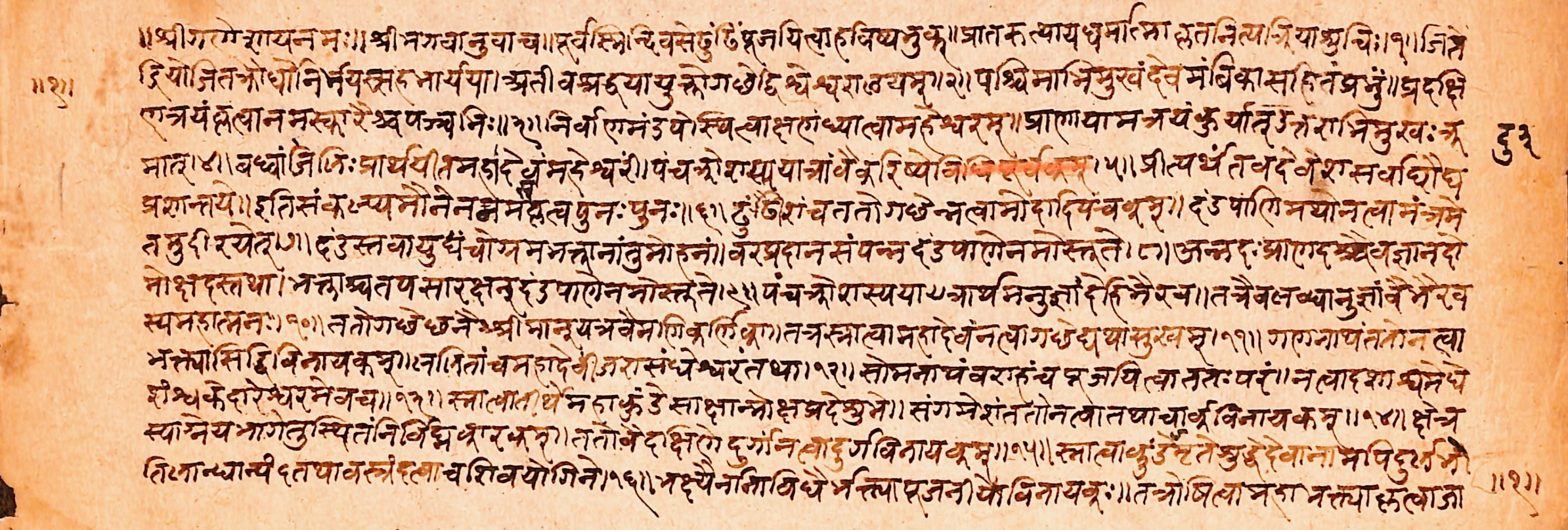 This is a page from the Agni Purana manuscript. Language: Sanskrit Script: Devenagari This manuscript was acquired in the 19th-century, and was produced in or before the acquisition. The photo above is of a 2D artwork from the text that was itself authored more than 500 years ago. Therefore Wikimedia Commons PD-Art licensing guidelines apply. Any rights I have as a photographer is herewith donated to wikimedia commons under CC 4.0 license.